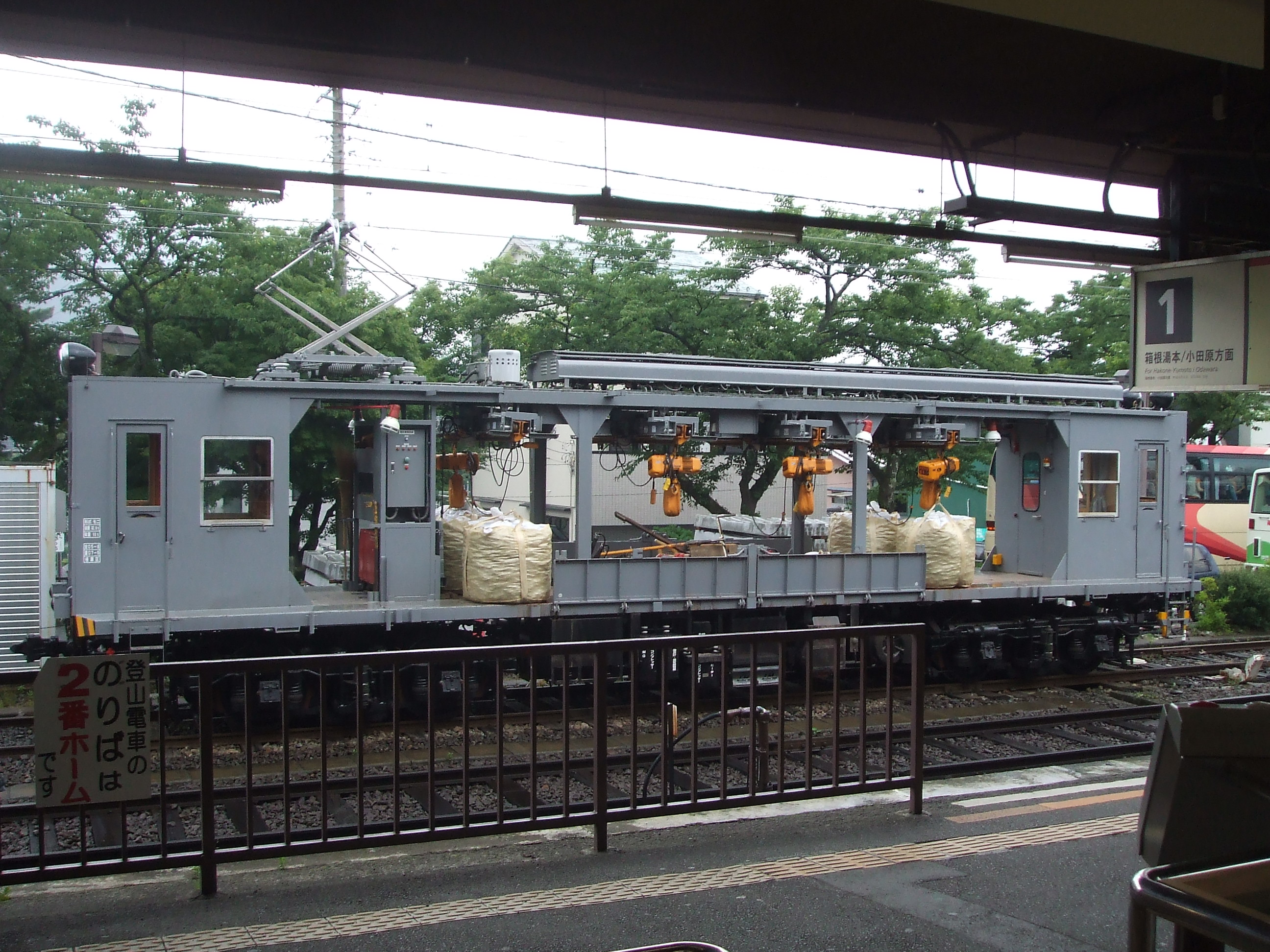 non-revenue earning logistics electric car of Hakone Tozan Railway, Kanagawa, Japan.